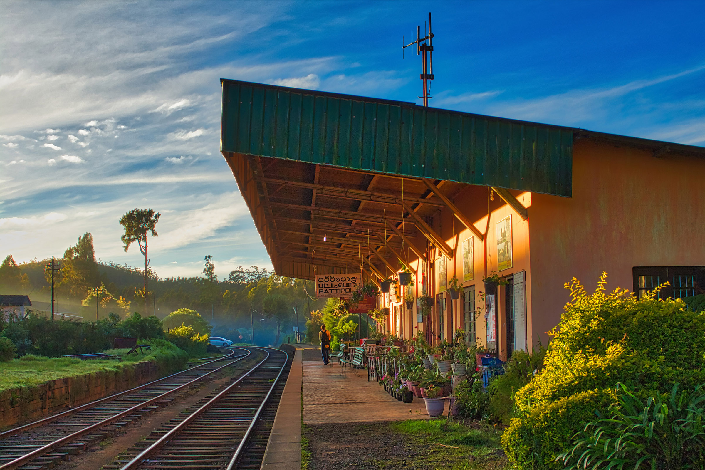 Pattipola railway station on the Sri Lanka Main Line in December 2017, part of the Rail Pa collection by Samantha Weerasinghe